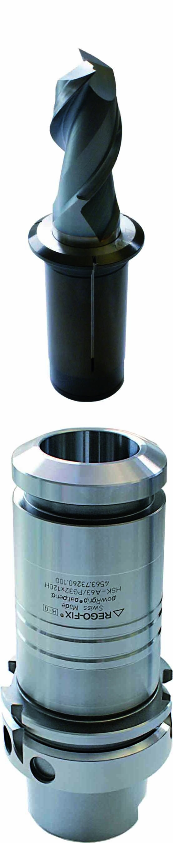 collet and holder